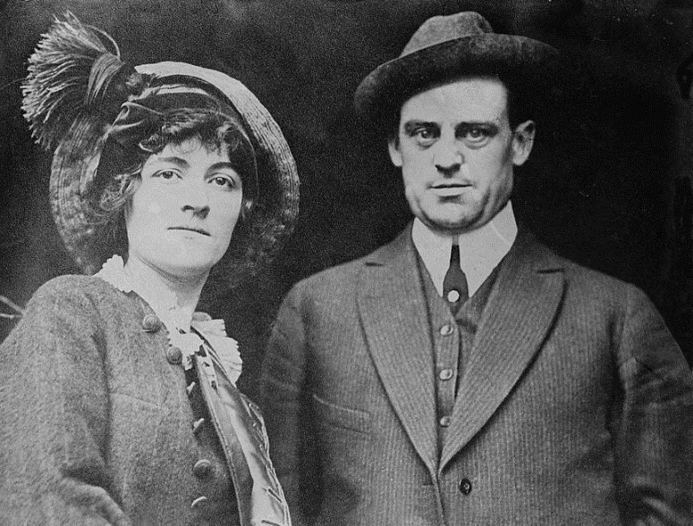 Major League Baseball outfielder Mike Donlin and his wife, Broadway and vaudeville actress Mabel Hite.